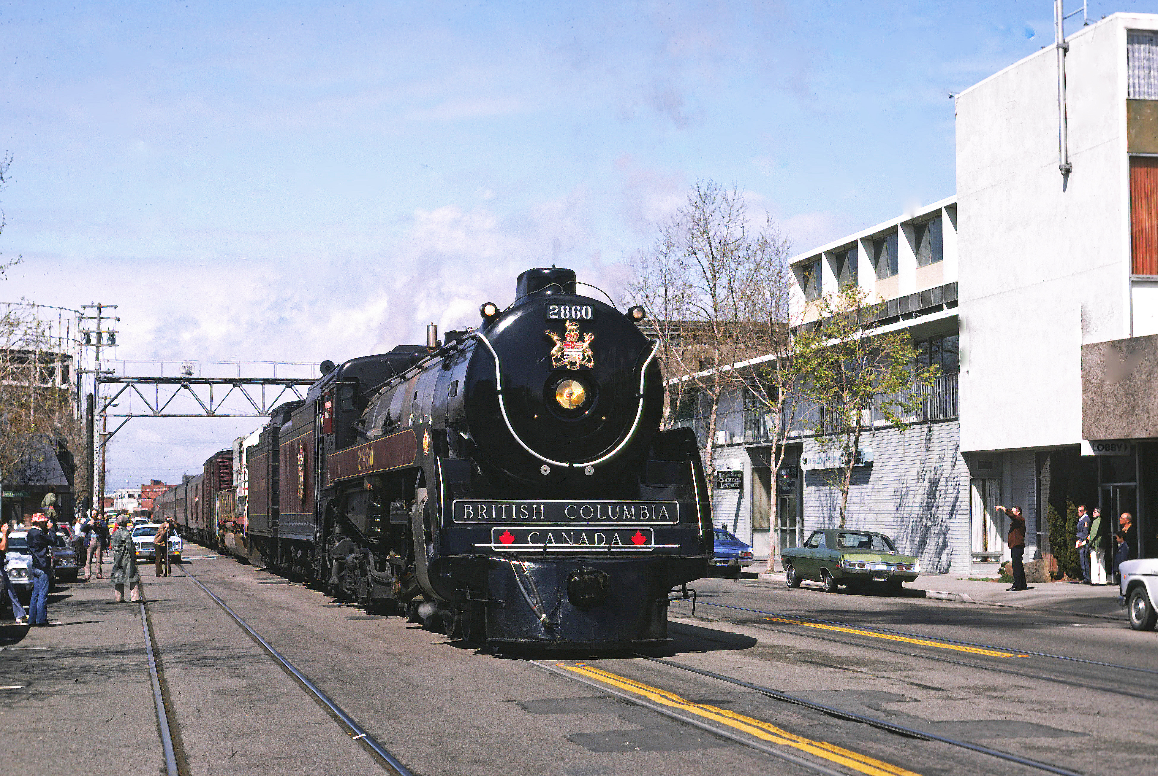 BCR #2860 in Jack London Square area, Oakland CA LS March 1977.